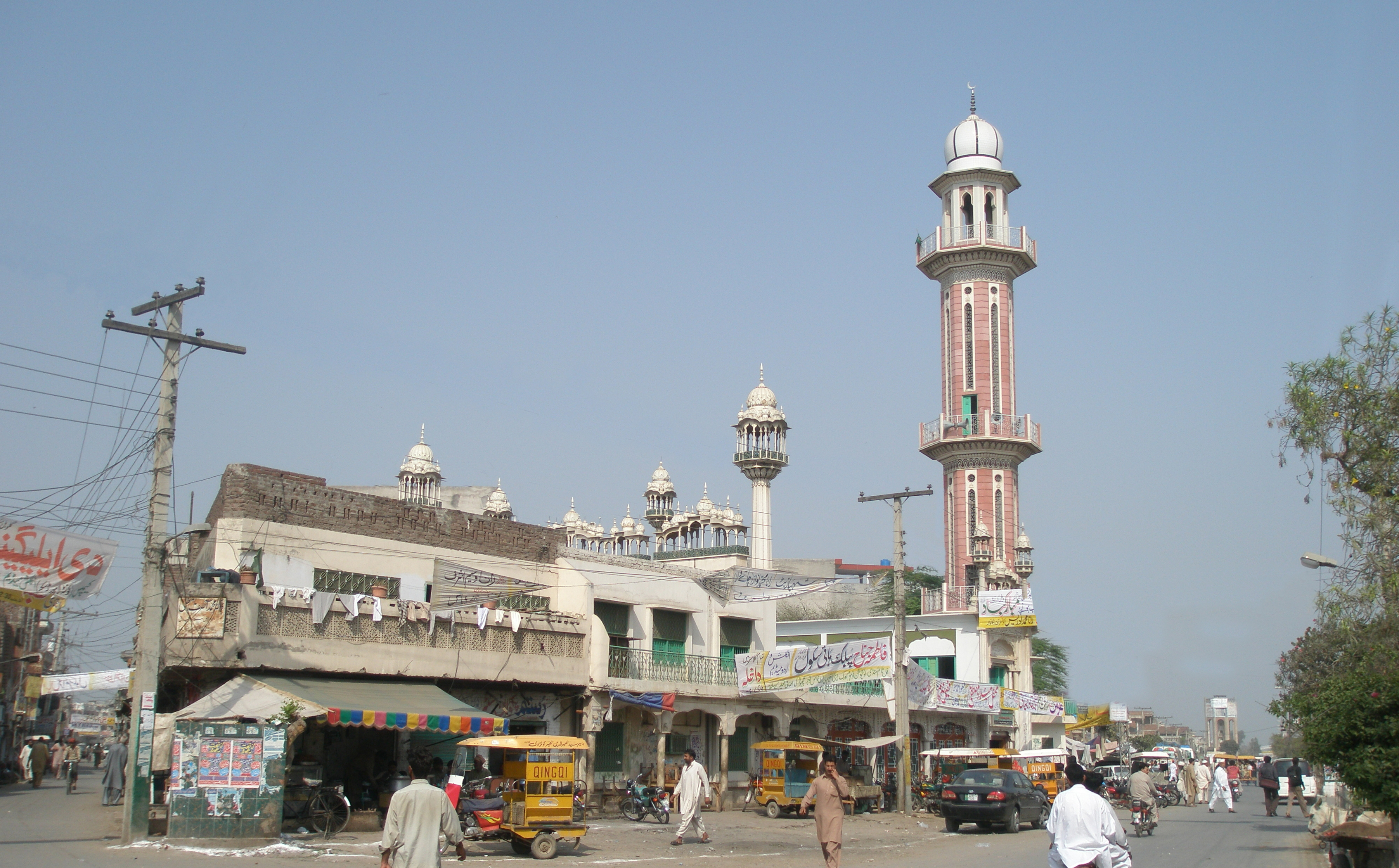 Noor Masjid Daska, Punjab, Pakistan